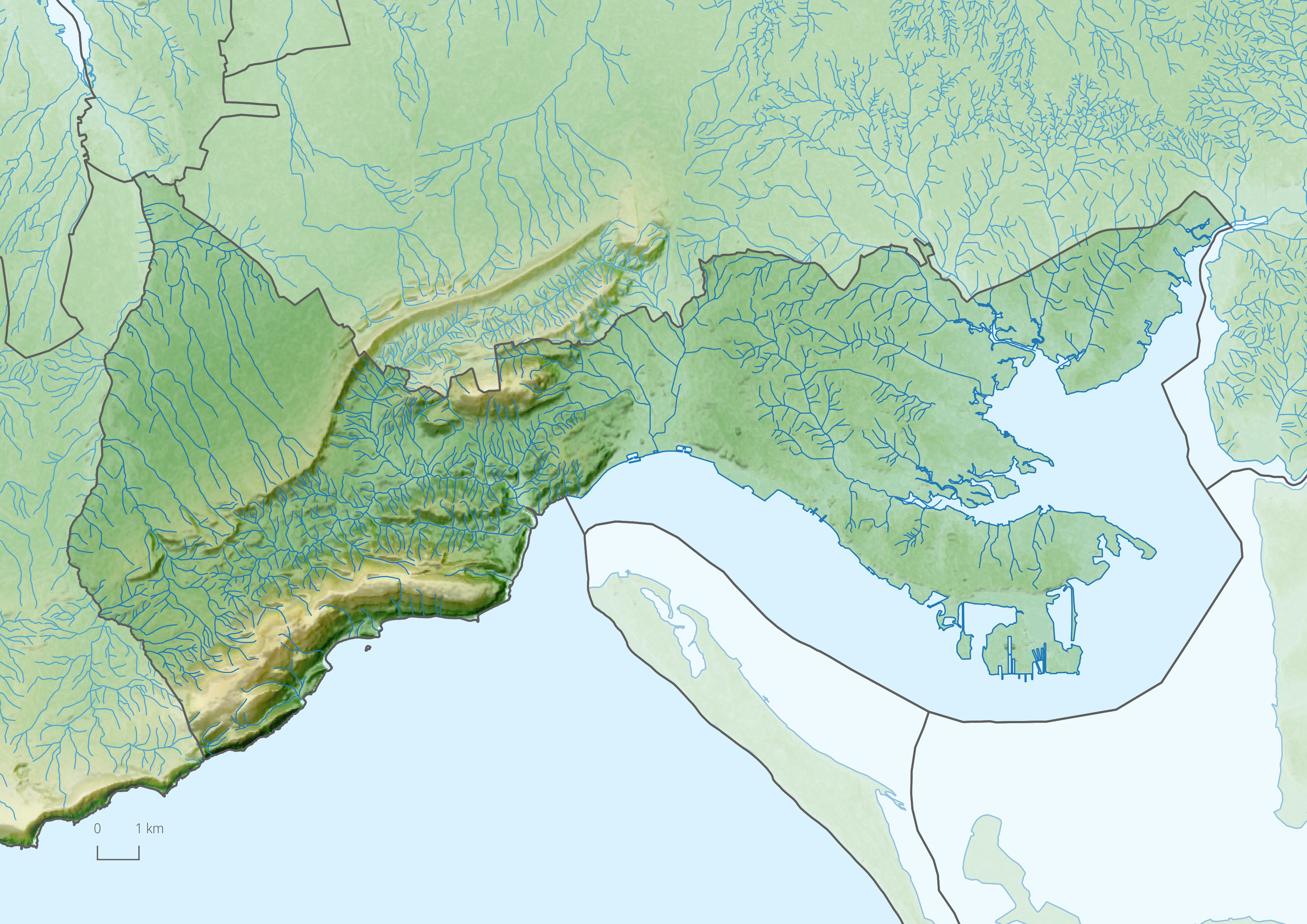 Relief map of Setúbal, Portugal, complete with administrative boundaries, as well as streams and rivers.